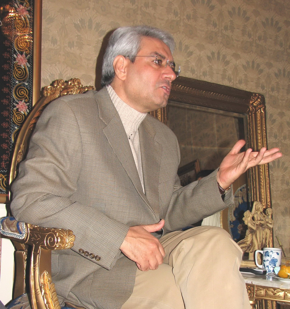 Ebrahim Asgharzadeh, December 2006, Roozbeh highschool gathering.